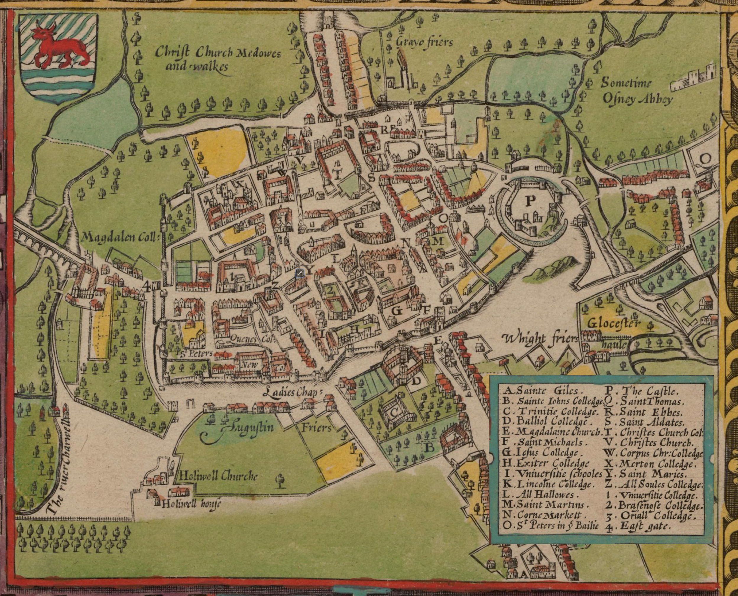 John Speed's map of Oxford, 1605. North is at the bottom. Oxford is still a walled city, but there some buildings are outside the walls, including Magdalen College. "P" is Oxford Castle "N" is Oxford's central crossroads at the junction of the High Street and St Aldates. Broad Street and Holywell Street now run along the line of the north (that is bottom) wall.